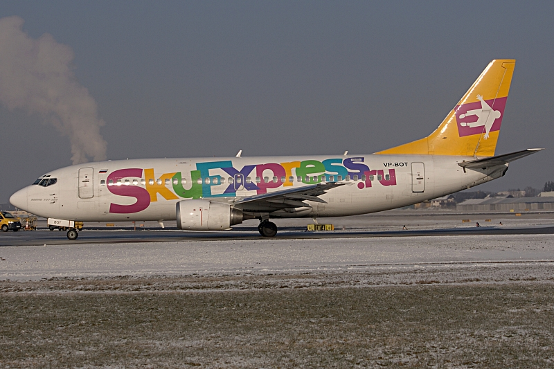 Sky Express Boeing 737-300 VP-BOT